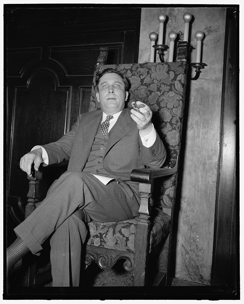 Wendell Willkie sitting in a chair